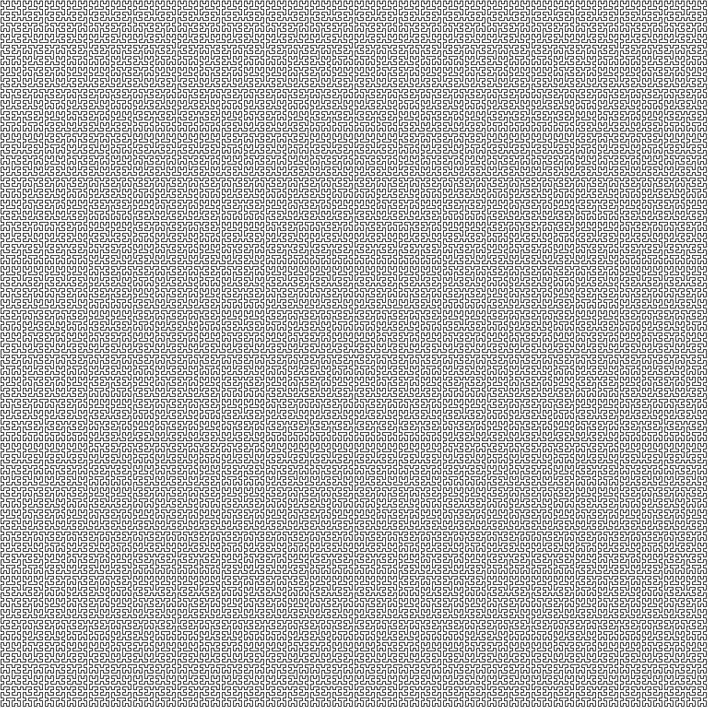 Hilbert Curve L7